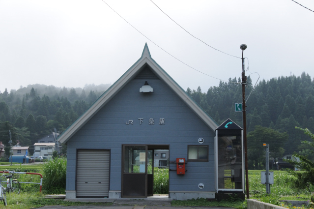 JR Gejo station